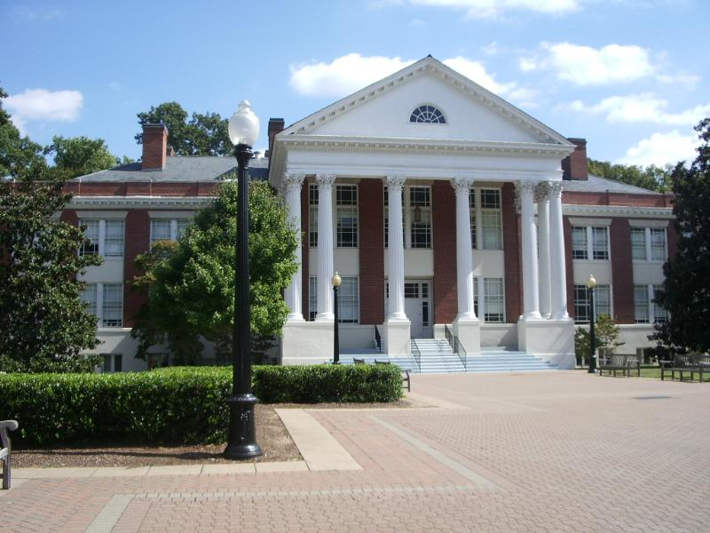 This is a photgraph taken by myself of Monroe Hall at the University of Mary Washington